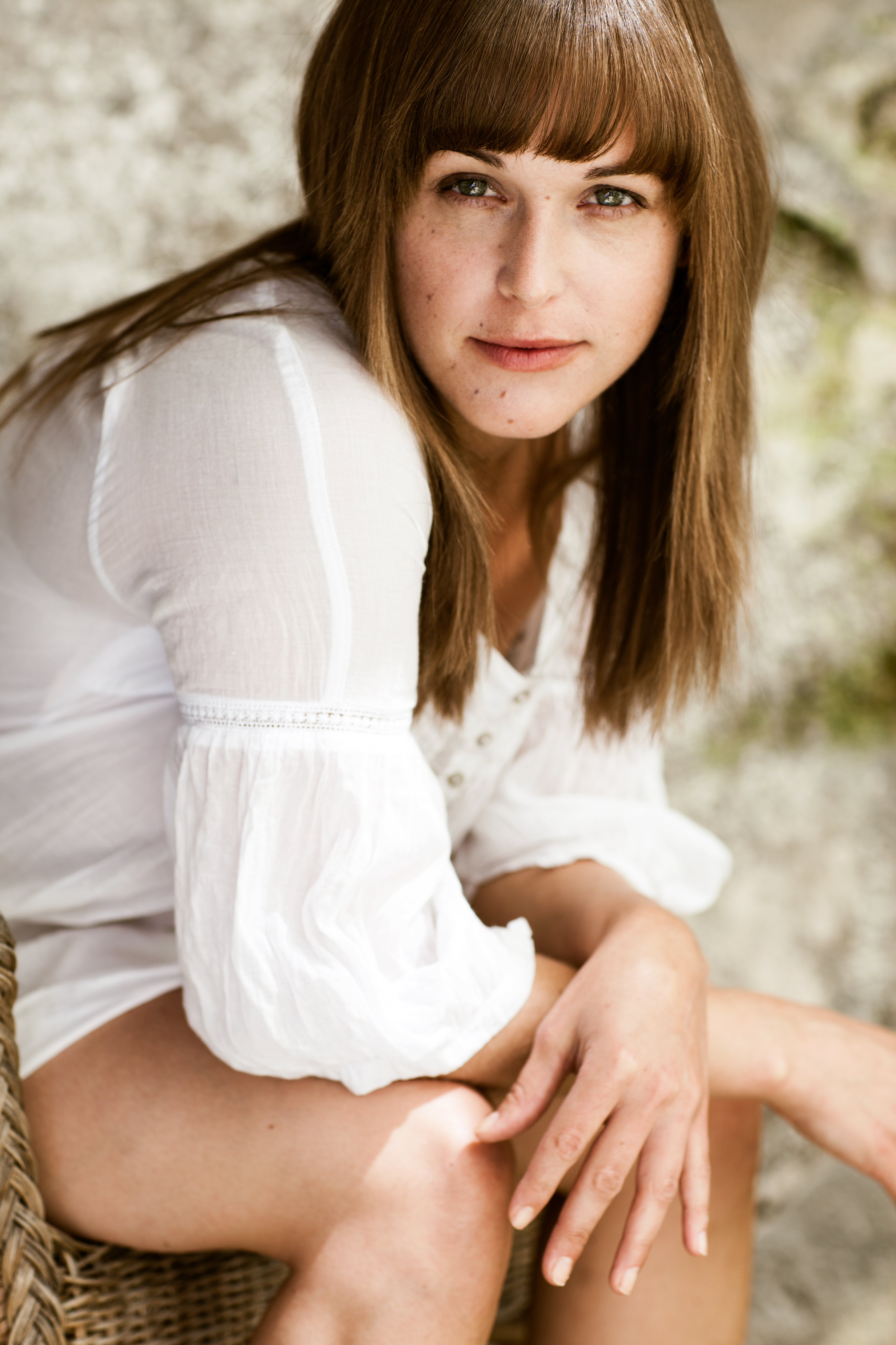 Friederike Sipp